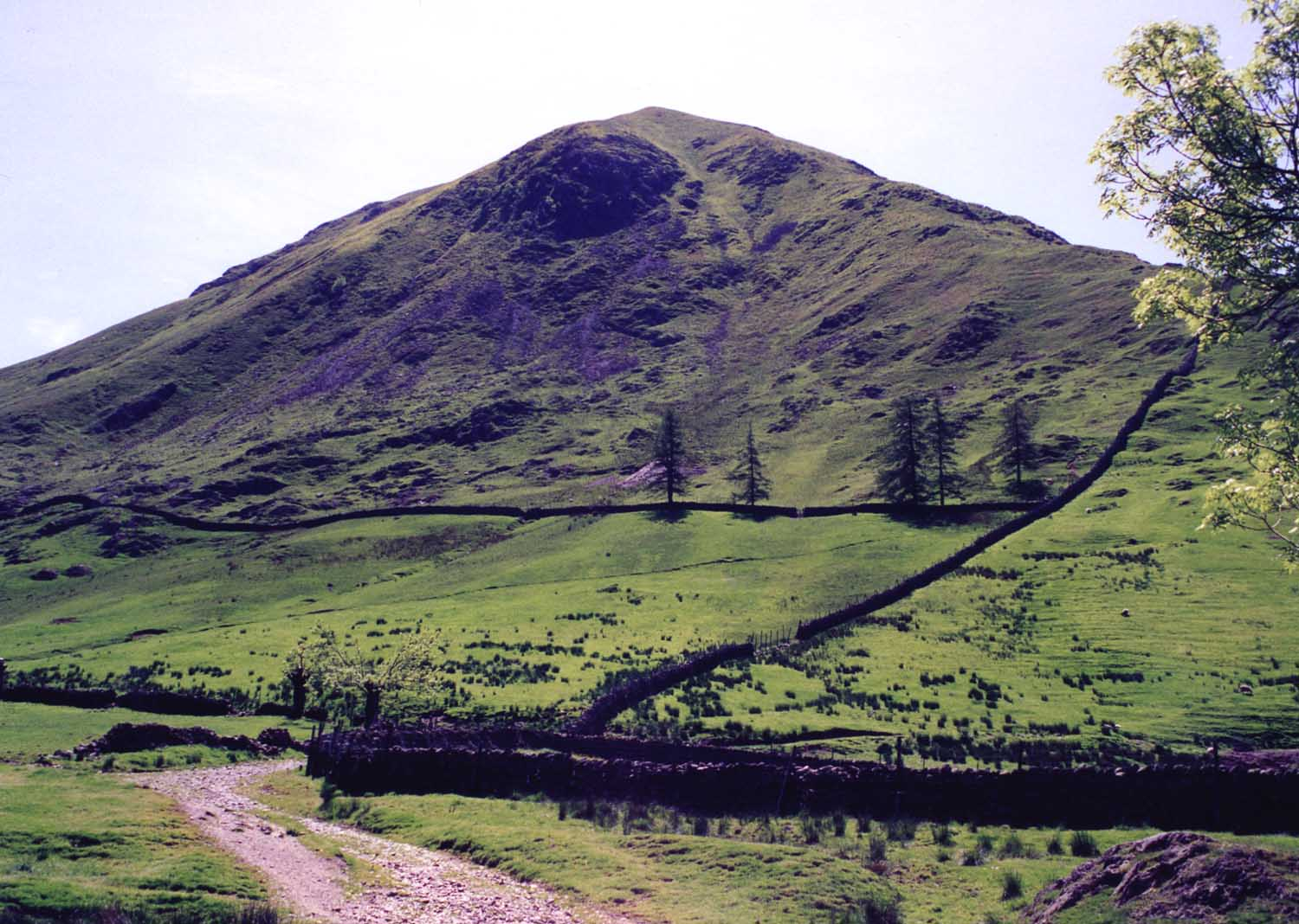 Personal picture taken by Mick Knapton